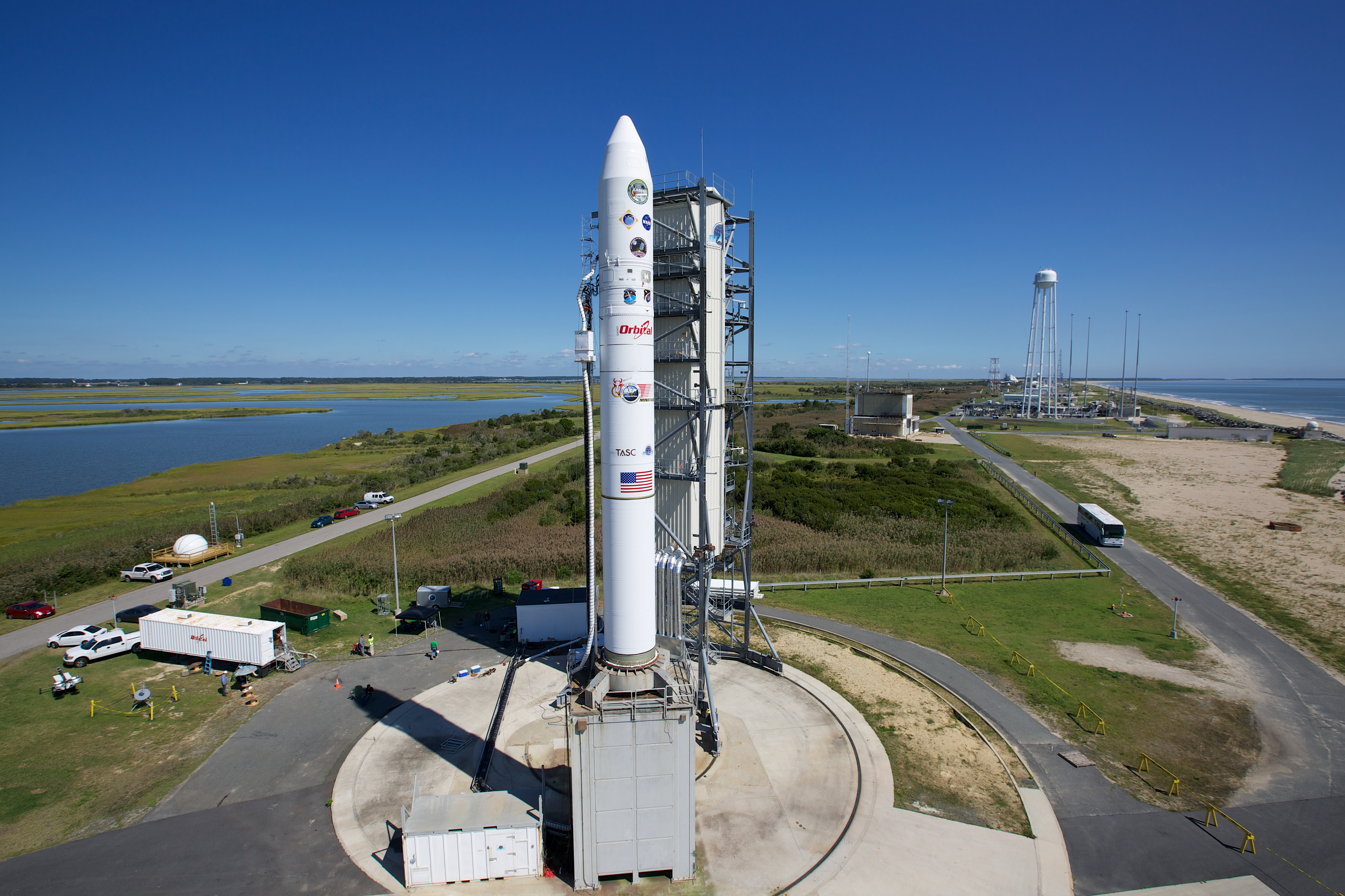 LADEE Ready for Launch - In an attempt to answer prevailing questions about our moon, NASA is making final preparations to launch a probe at 11:27 p.m. EDT Friday, Sept. 6, from NASA's Wallops Flight Facility on Wallops Island, Va. The small car-sized Lunar Atmosphere and Dust Environment Explorer (LADEE) is a robotic mission that will orbit the moon to gather detailed information about the structure and composition of the thin lunar atmosphere and determine whether dust is being lofted into the lunar sky. A thorough understanding of these characteristics of our nearest celestial neighbor will help researchers understand other bodies in the solar system, such as large asteroids, Mercury, and the moons of outer planets.